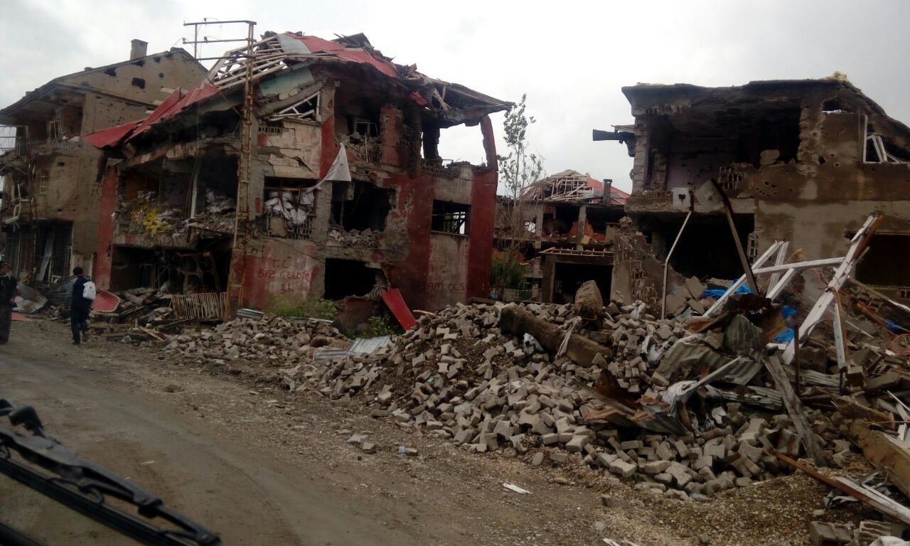 Hakkari, Yüksekova. After military operation